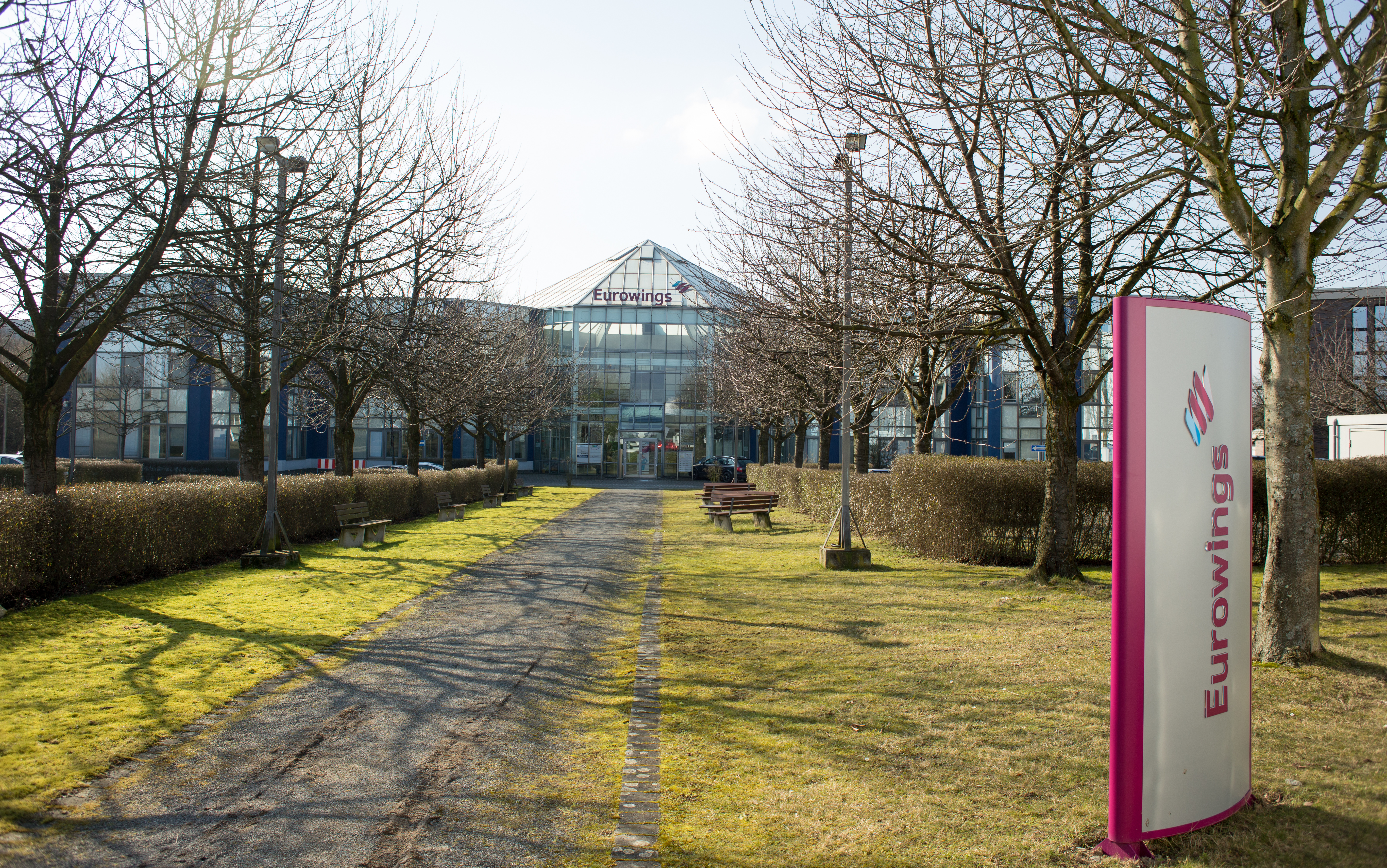 Eurowings Head office at Großenbaumer Weg 6 D-40472 Düsseldorf Germany